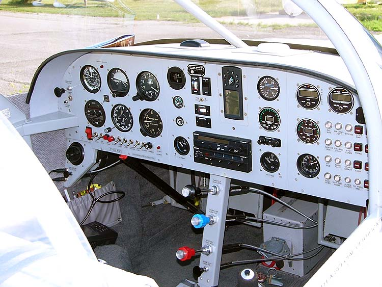 An RV-6 instrument panel. I took this photo